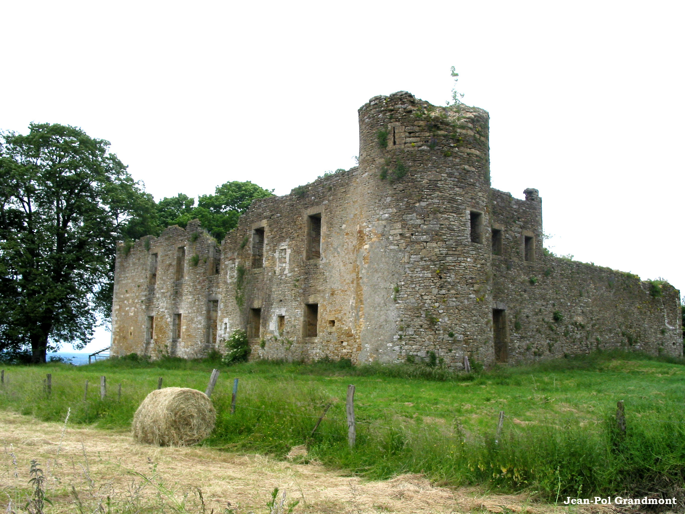 Montquintin, Belgium: "de Hontheim" castle ruins (15th–17th centuries).